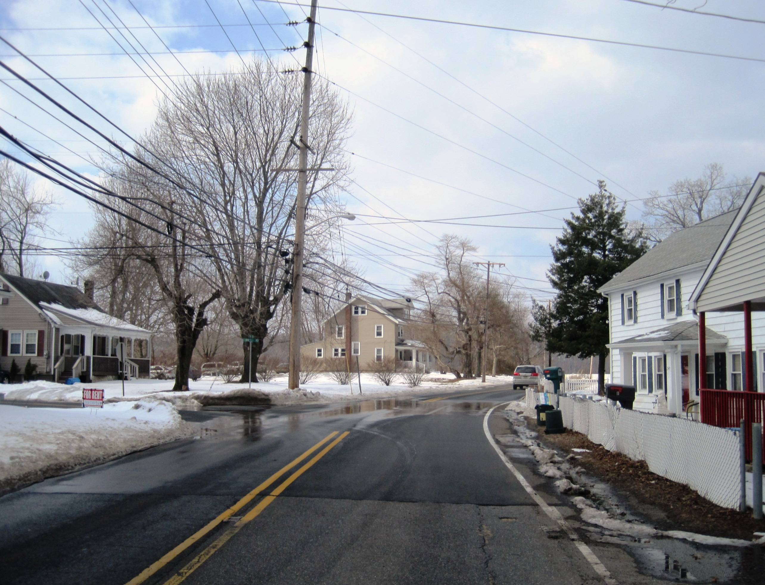 Photo of the intersection of County Route 571 (Etra Road) and Cedarville Road in an unincorporated section of East Windsor Township, New Jersey known as Etra.